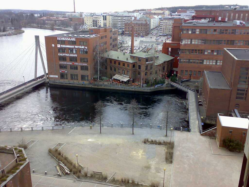 Tammerkoski from hotel Ilves, Tampere, Finland